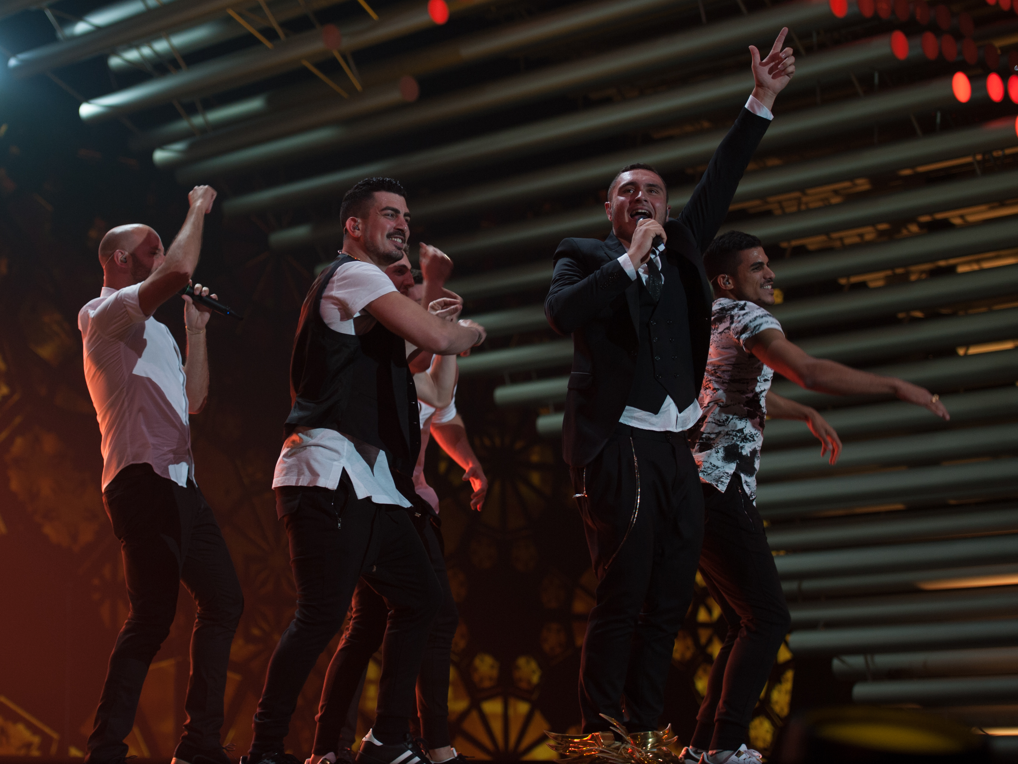 Eurovision Song Contest Vienna 2015: Nadav Guedj